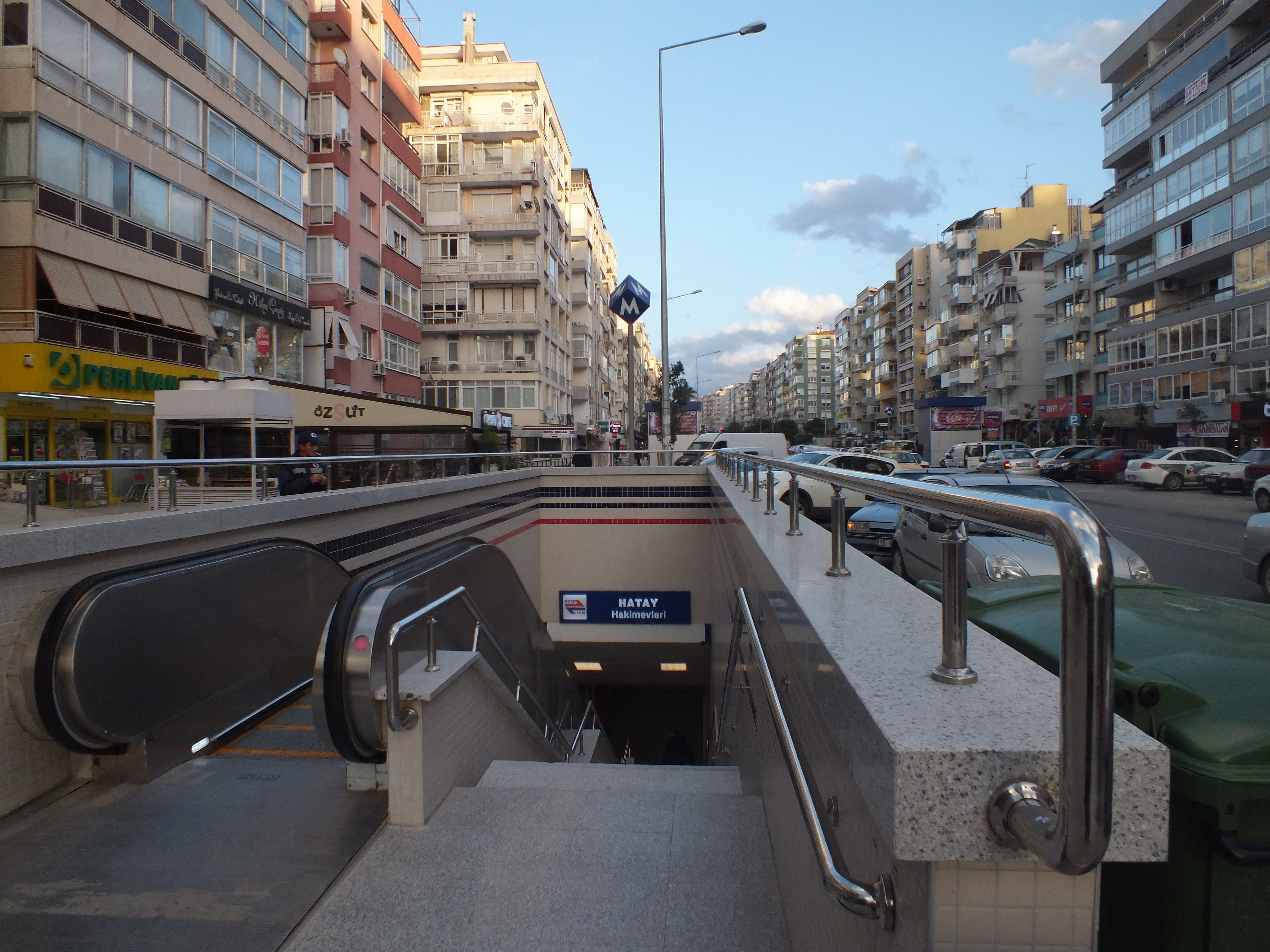 Hakimevi entrance to the Hatay metro station.